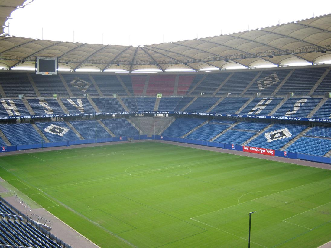 HSH Nordbank Arena